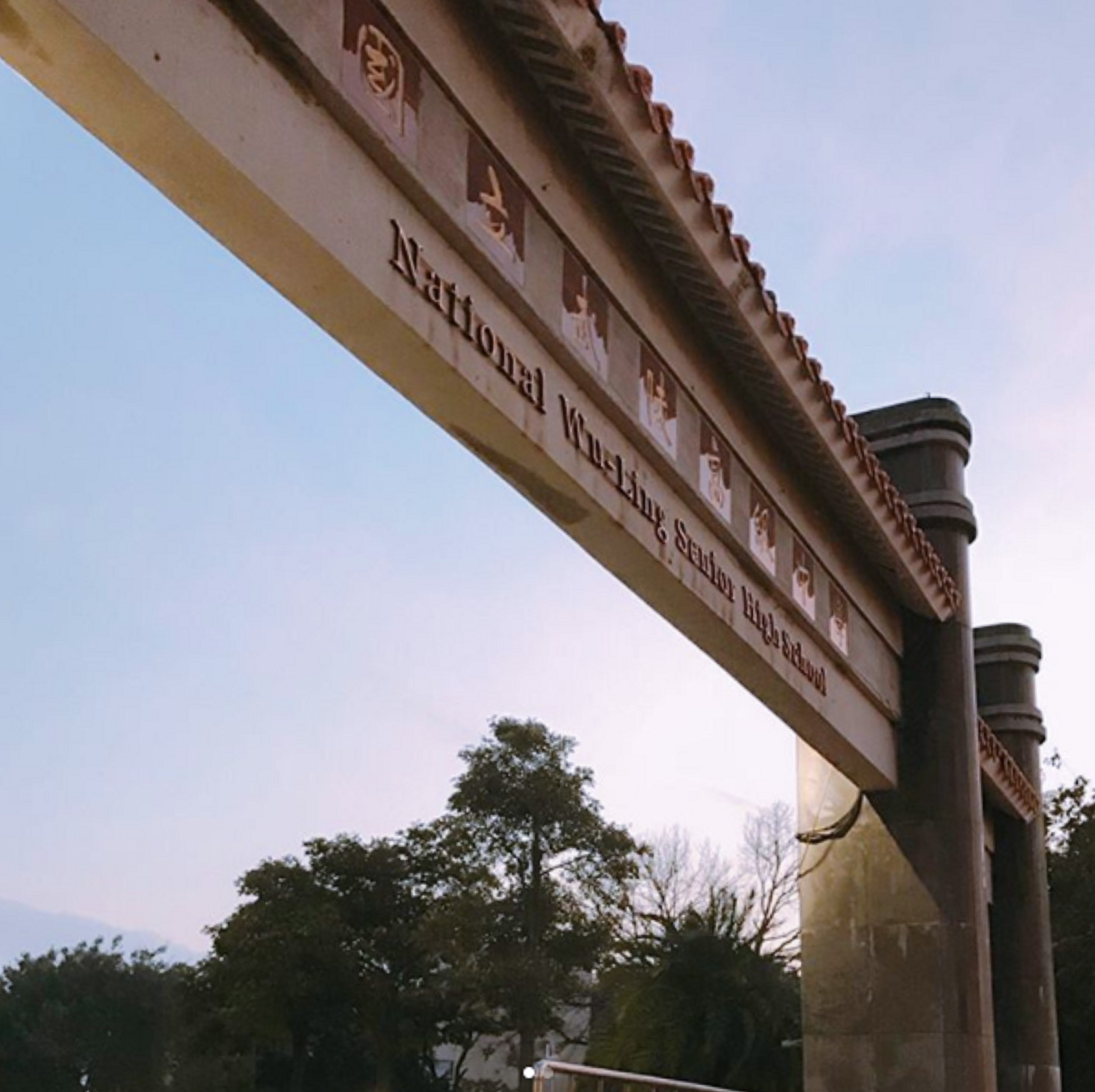 This photo features the gate of Wuling Senior High School in its National-affiliation period.